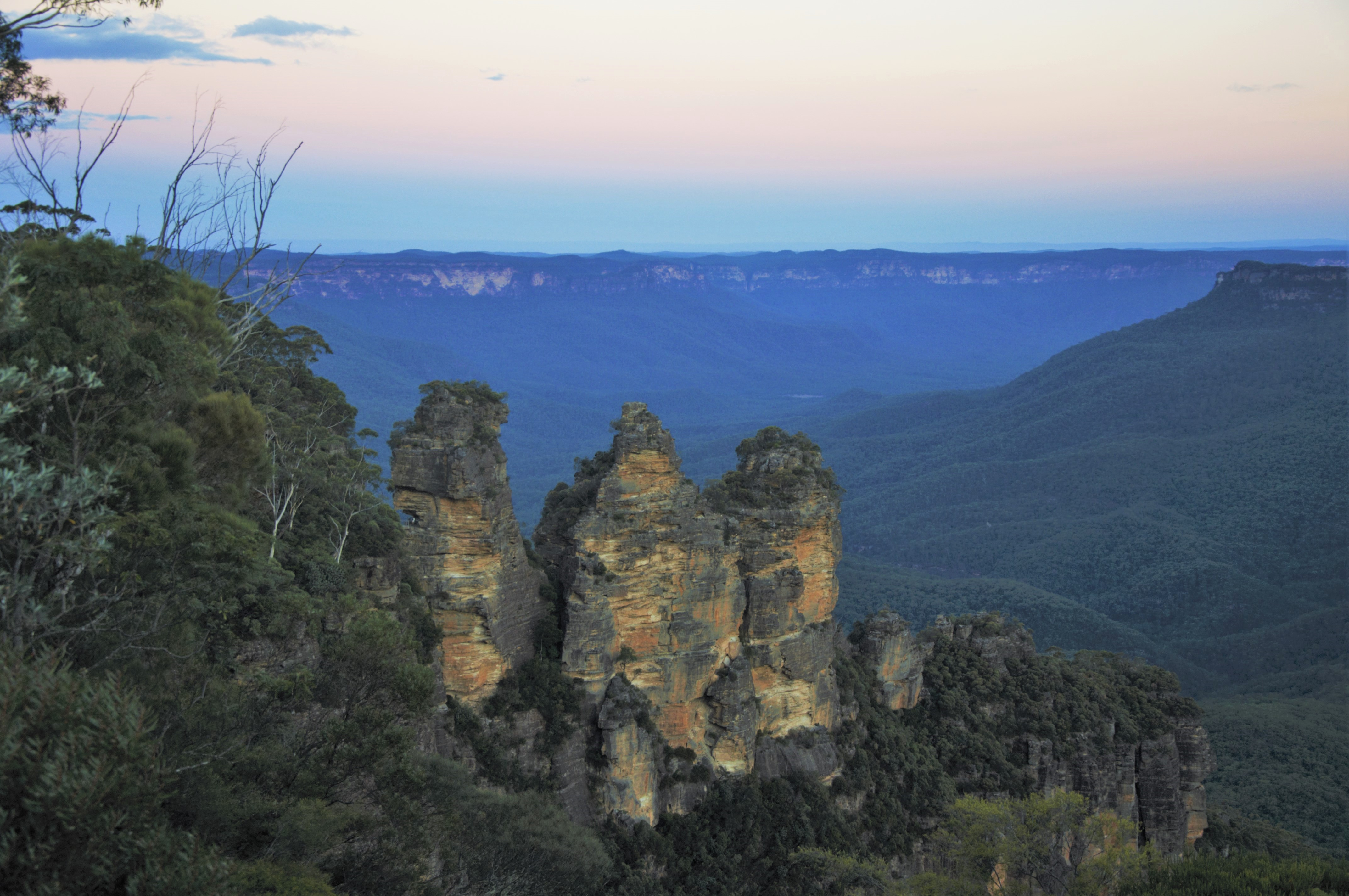 The typical blue haze in the Jamison Valley behind the Three Sisters,New South Wales,Austrailia. This photo has been taken by Prof.Chen Hualin.